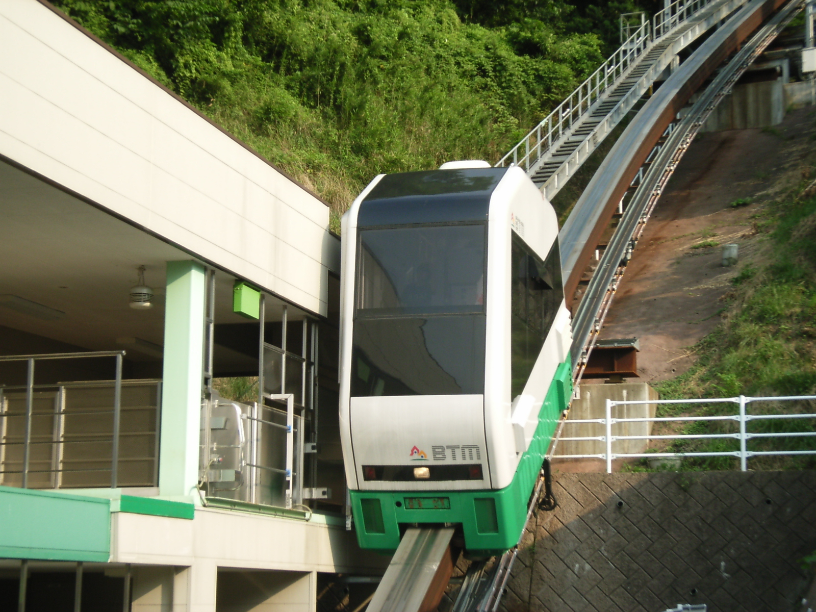 Shuttle Katsuradai. Belt type Transit system by Magnet. Ōtsuki, Yamanashi prefecture, Japan.